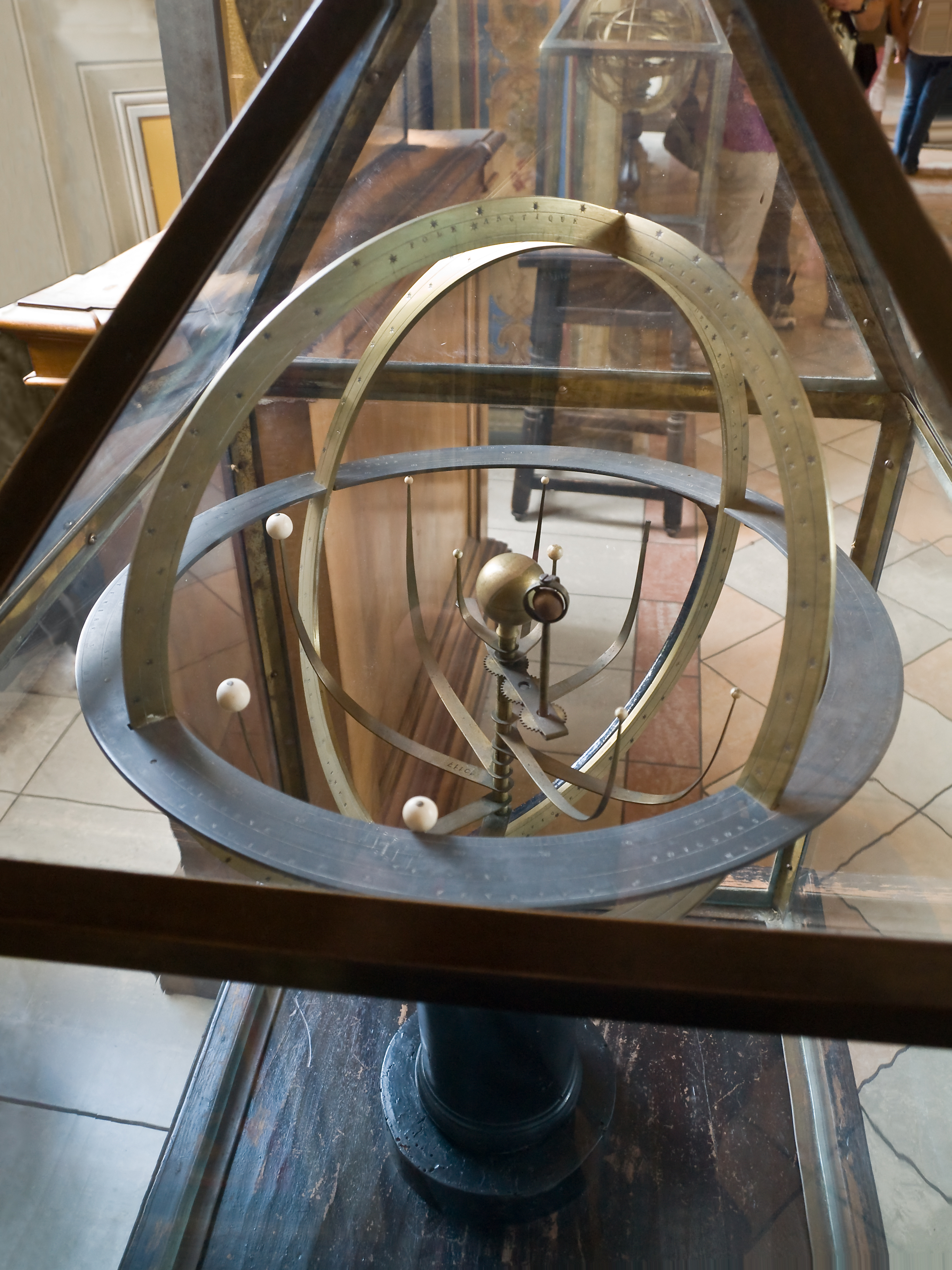 Orrery - Gallery of Maps, Vatican Museums, Italy.